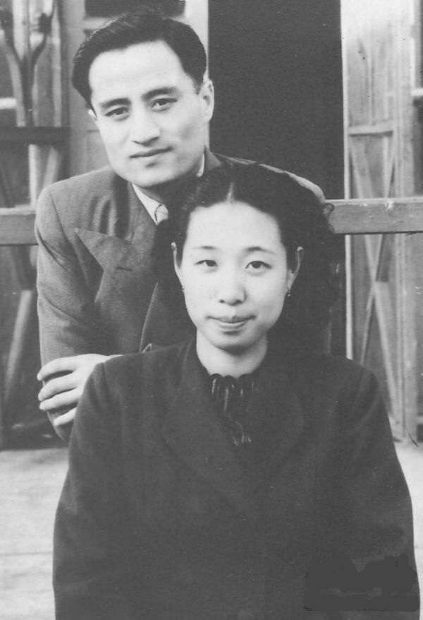 Abdulkerim Abbas and his wife Lü Suxin